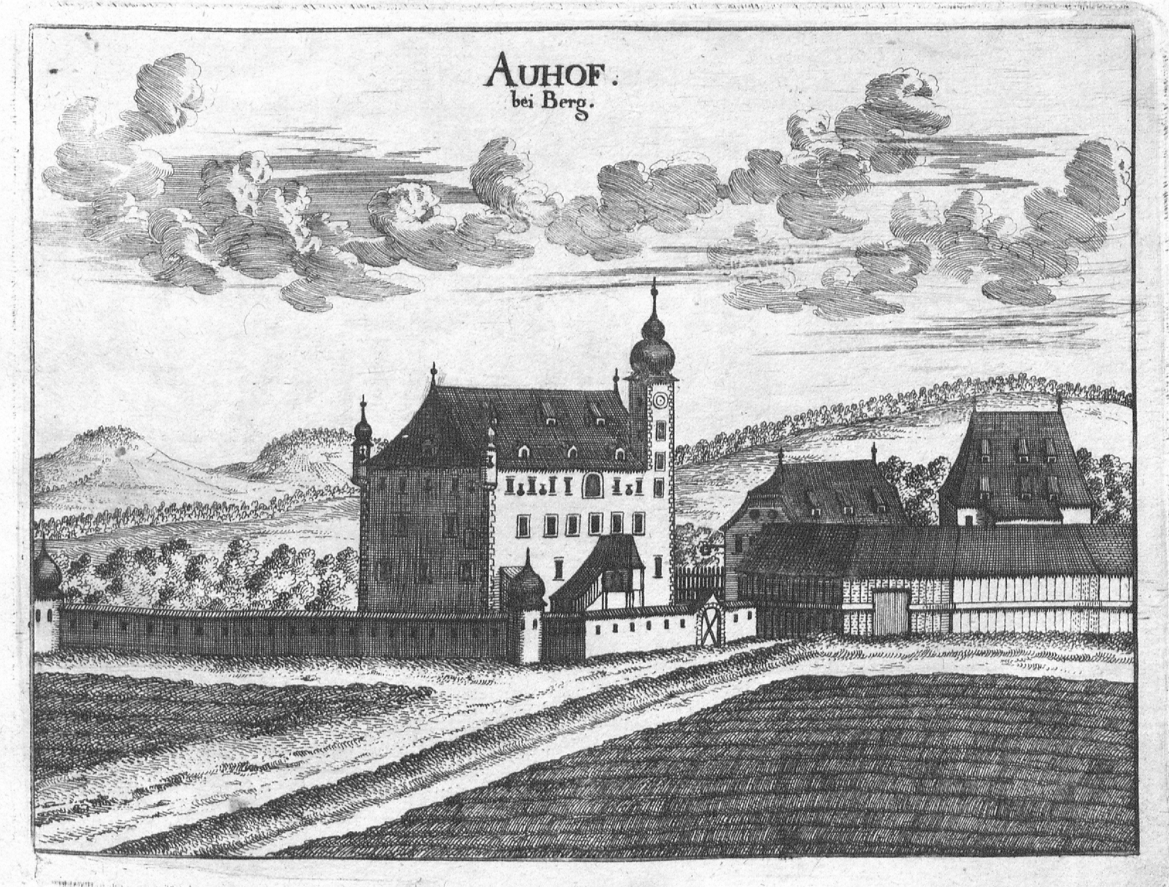 Engraving, view of Auhof castle, Upper Austria